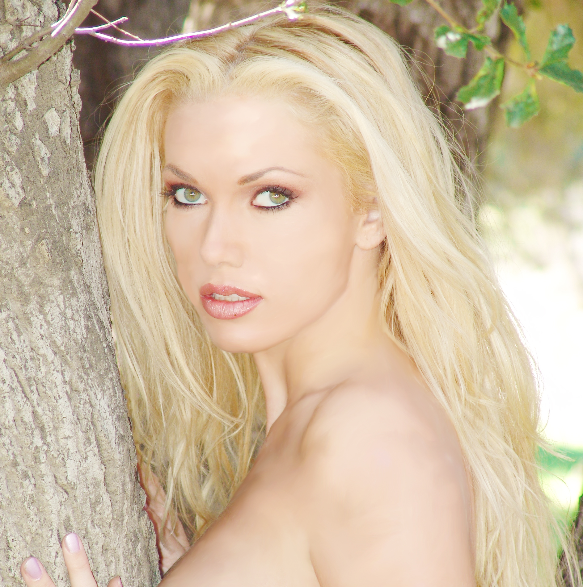 Ava Vincent in the outdoors with my friend Myke Micheals.